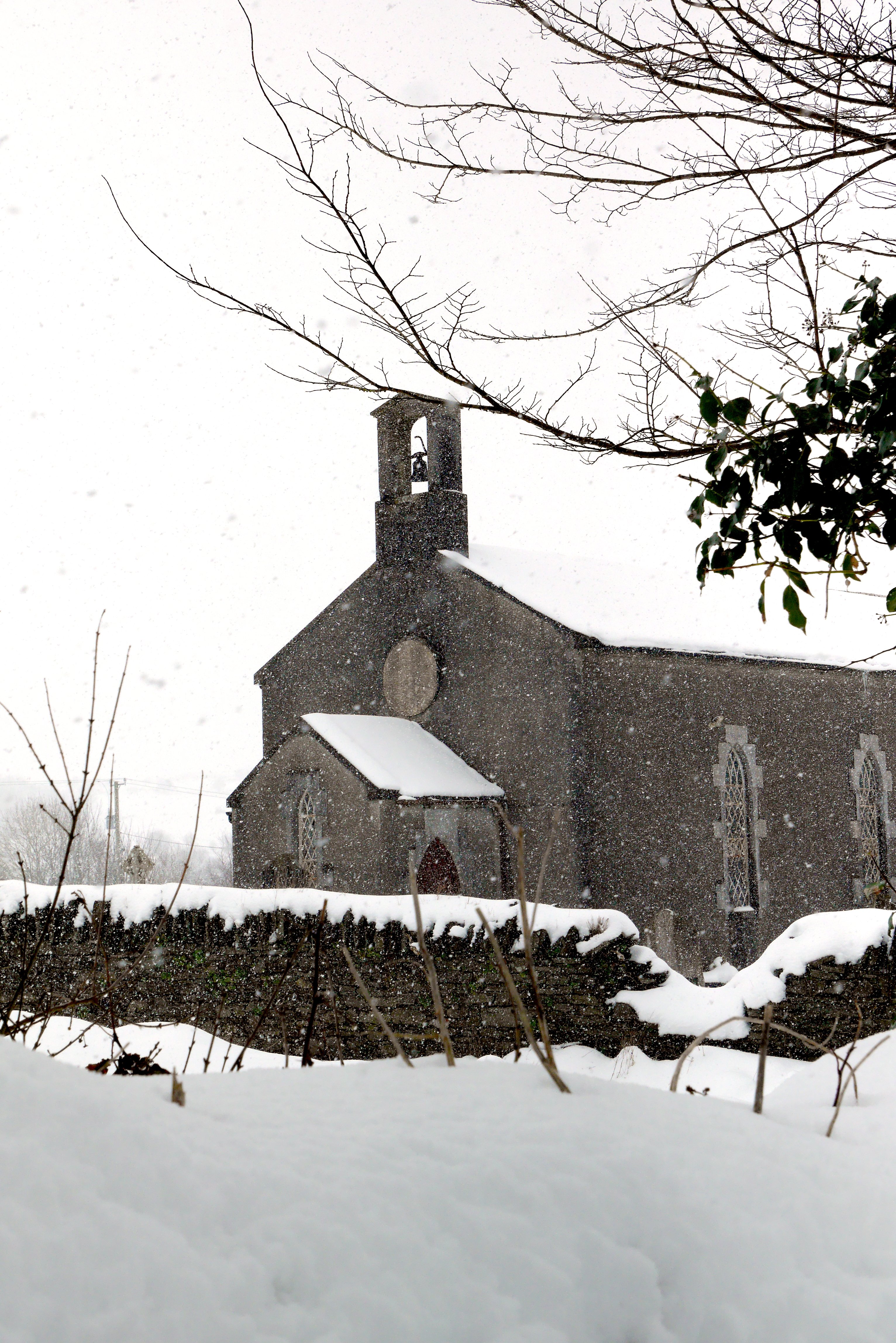 County Cork, Kilnagross Church. Wikidata has entry Q55045875 with data related to this item.